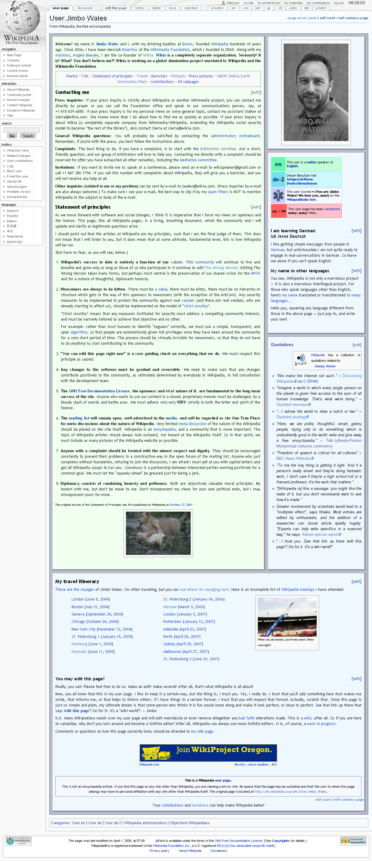 Image of User:Jimbo Wales on April 1, 2008